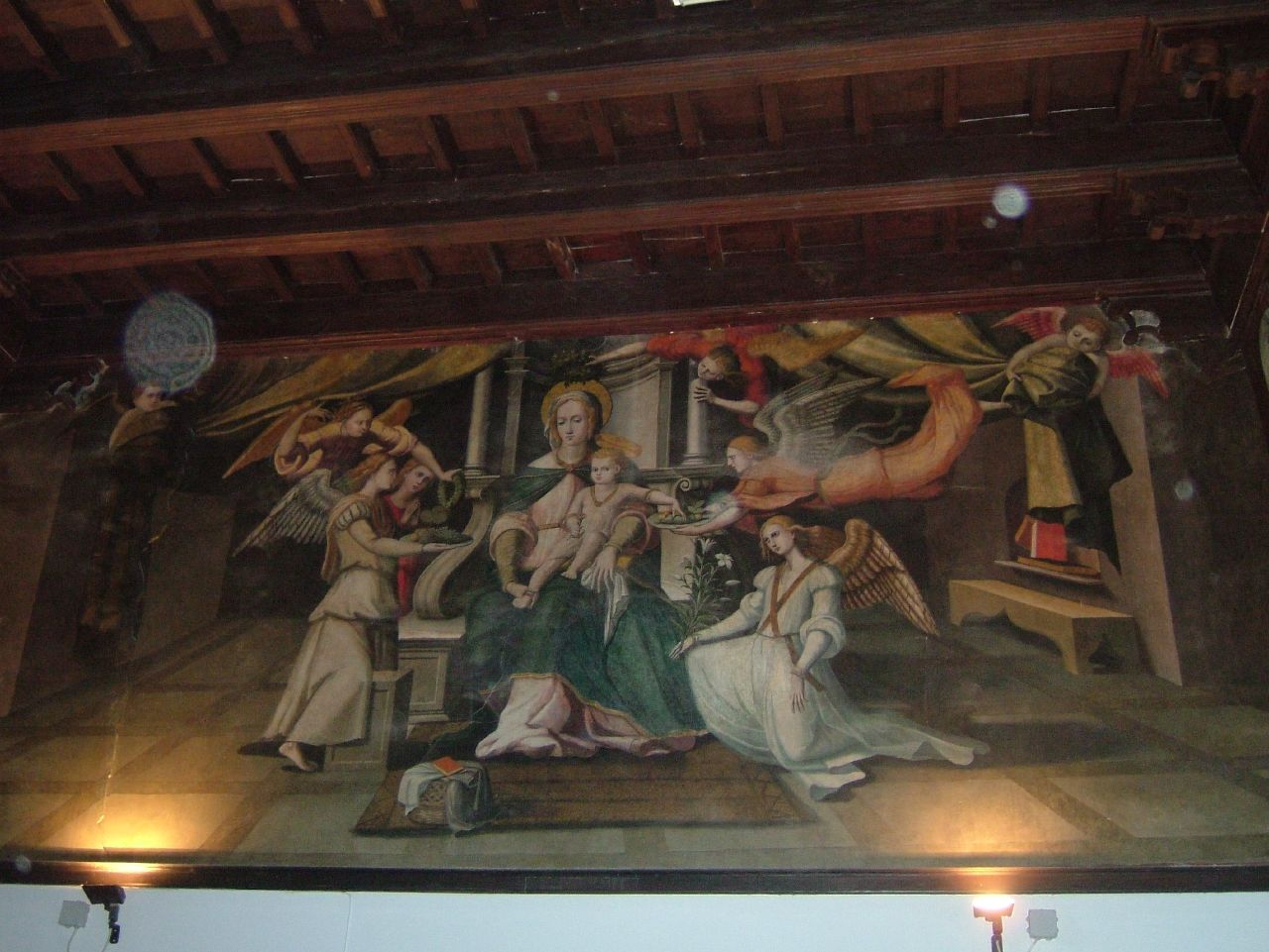 University of Osuna, Spain.